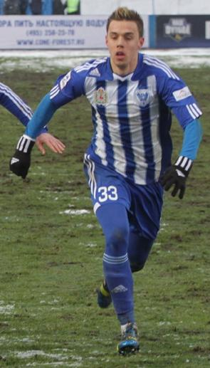 Milan Rodić with FC Volga Nizhny Novgorod in 2013.